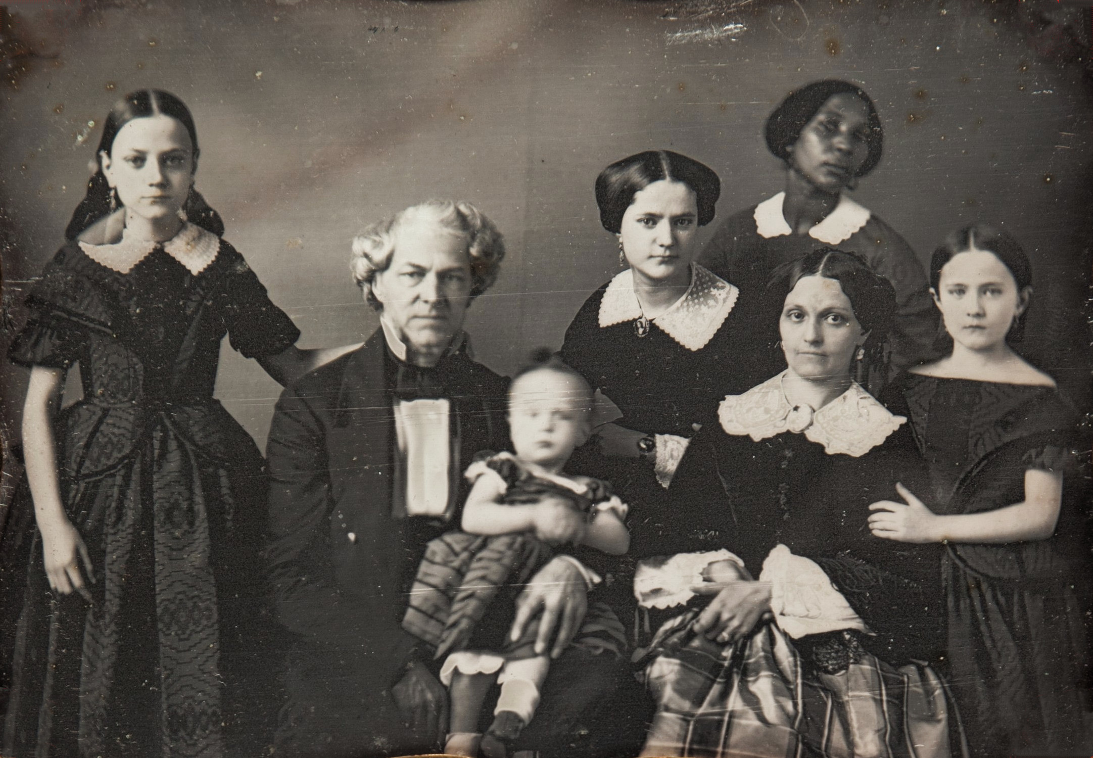 Half Plate Daguerreotype of Ustick Family, Including Black Servant. The young child on Walter's lap is probably Irene Walter, the first child he had with Amanda Walter. Irene was born in 1849. What is unusual about this photograph and which makes it extremely rare is the presence of a black servant, perhaps a nursemaid. She reportedly came to the family with Walter's second wife Amanda. One assumes that since both Walter and his second wife were from the free state of Pennsylvania, the black servant was a free woman.